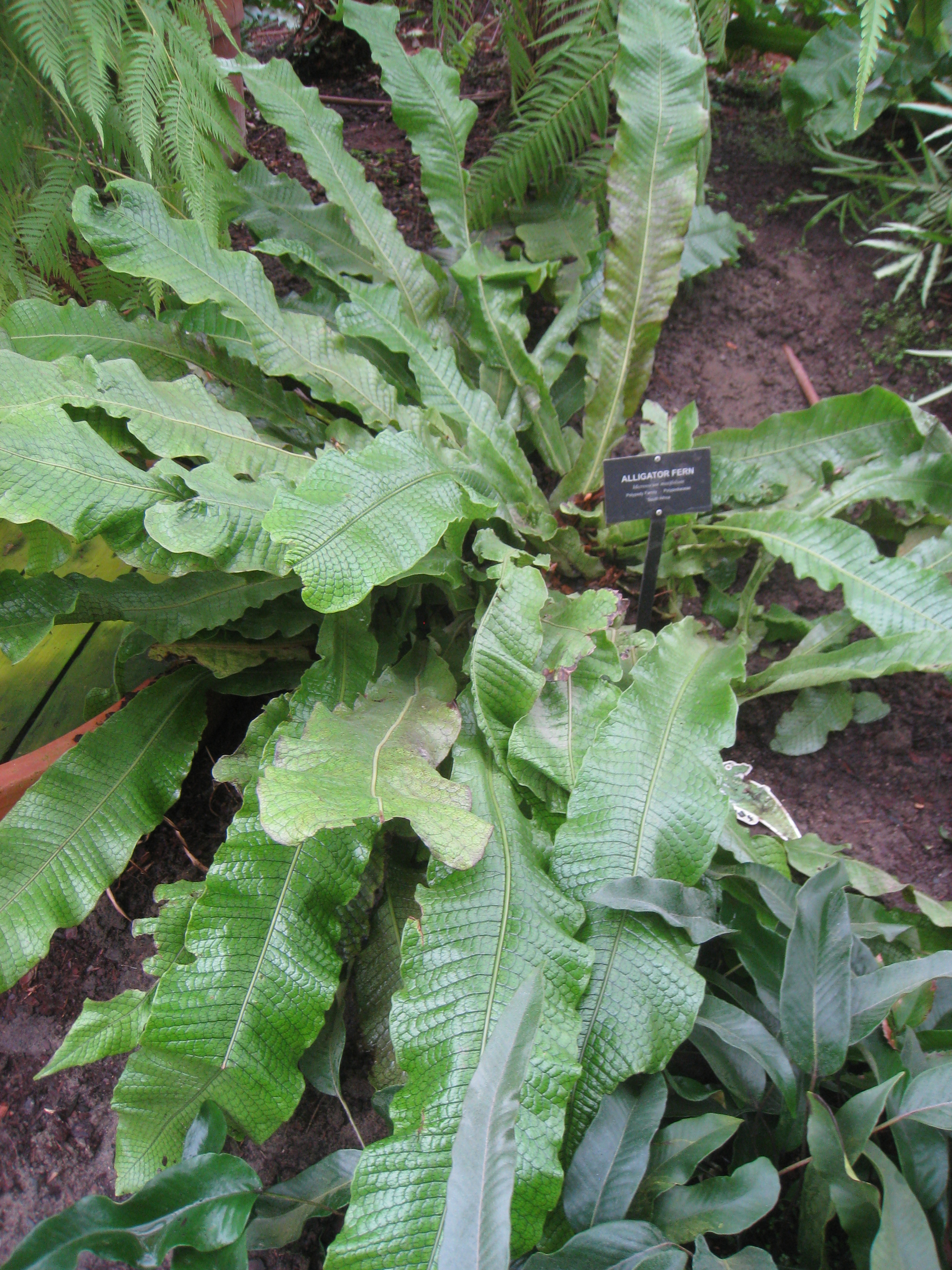 Microsorum musifolium in the Buffalo and Erie County Botanical Gardens, Buffalo, New York, USA.